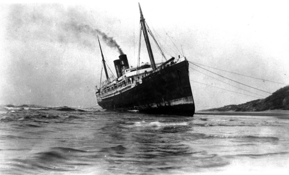 Maheno (ship) The 'Maheno' aground on Fraser Island.